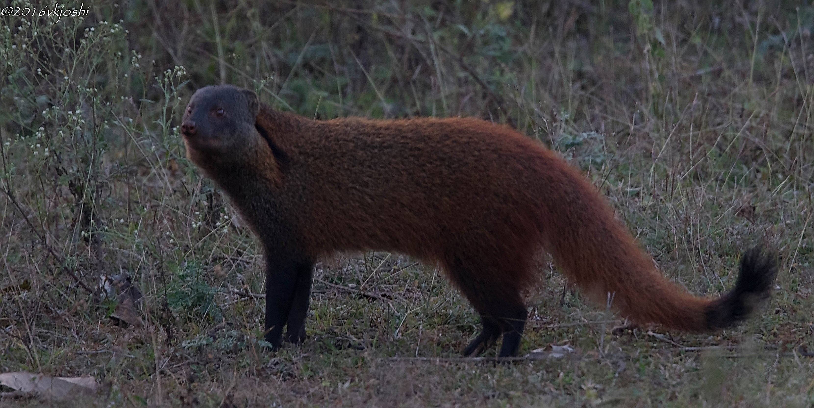 Indian Brown Mongoose in Bandipur Tiger Reserve